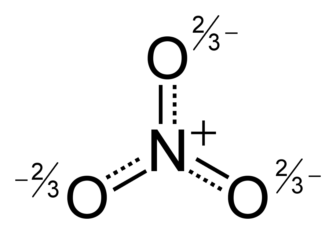 Resonance hybrid of the nitrate ion, [NO3]−. Structure drawn in ChemBioDraw Ultra 12.0.